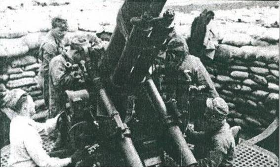 A 3 inch anti aircraft gun crew from Battery C, 206th Coast Artillery, Dutch Harbor Alaska, 1942. The Battery was from Arkansas State University, at Jonesboro, Arkansas